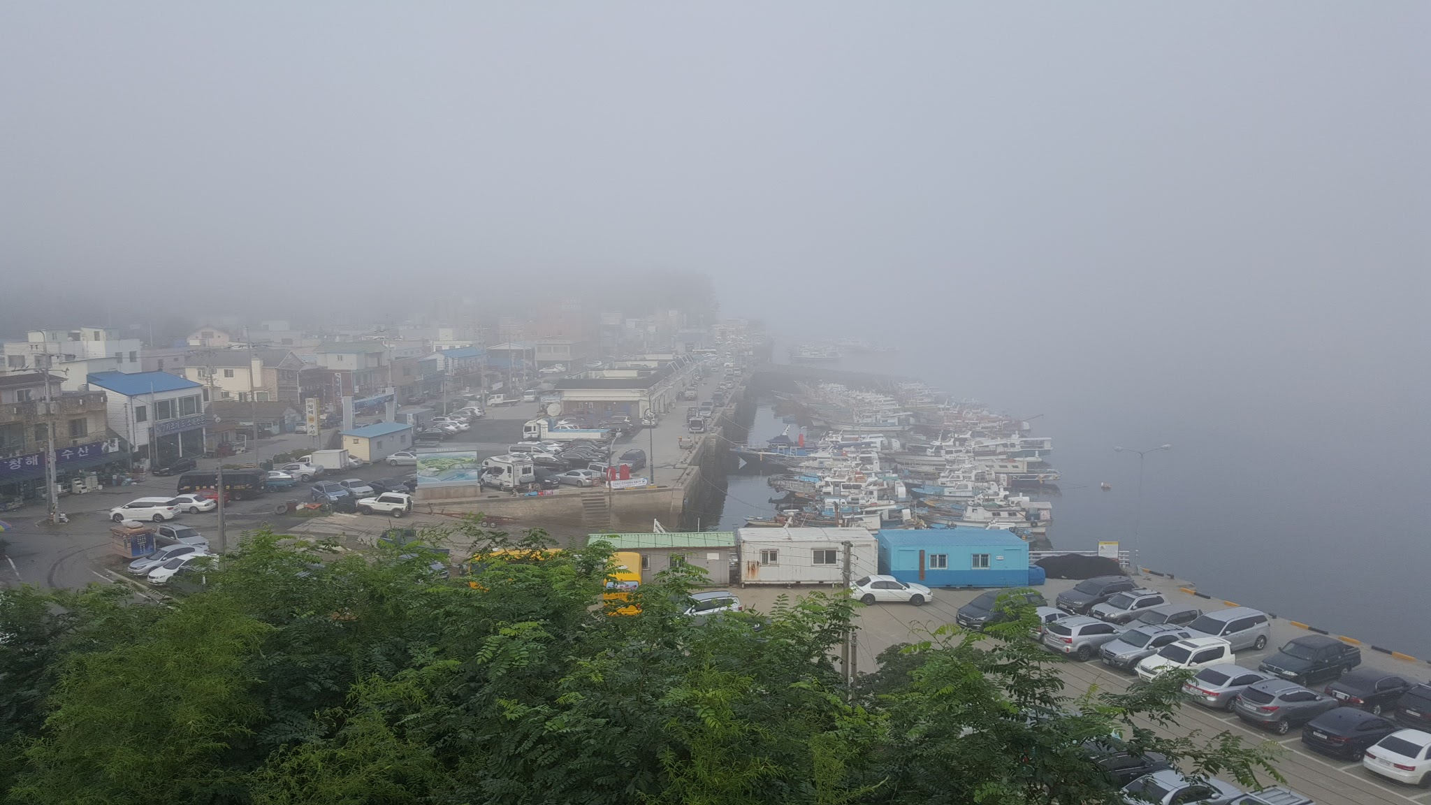 Overview of Ocheon port